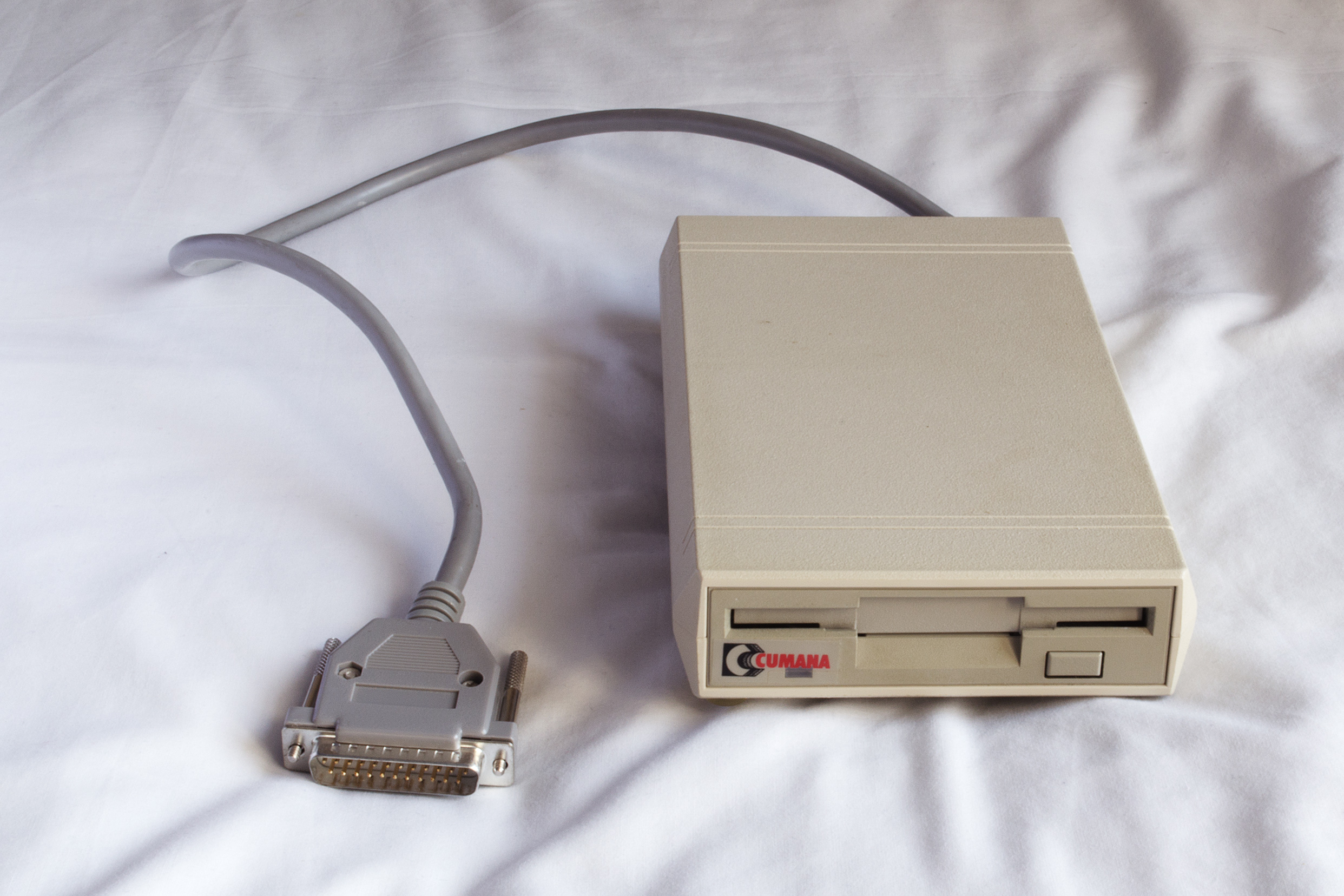 Cumana CAX 354 Disk Drive for Amiga (front and top). Bought December 1993 (stamp on underside indicates date of manufacture 20 Oct 1993).